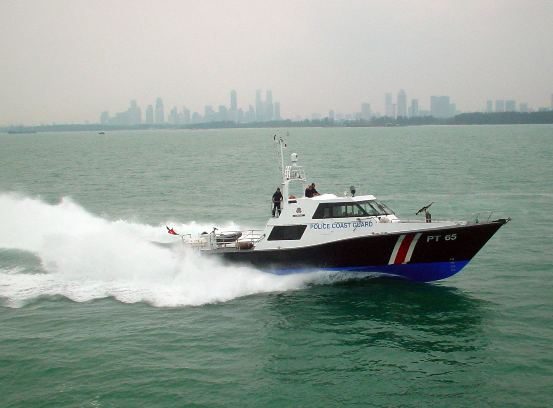 Description: Police Coast Guard PT boat conducting a sea-rescue demonstration. Source: Self-made Location: East Coast, Singapore Date: 26/02/2005 14:39 Photographer/Painter: Huaiwei